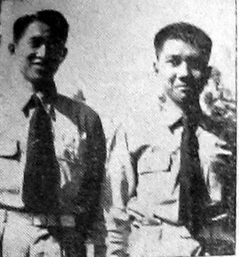 Chinese Indonesian airmen The Tjin Ho (left) Gan Seng Liep